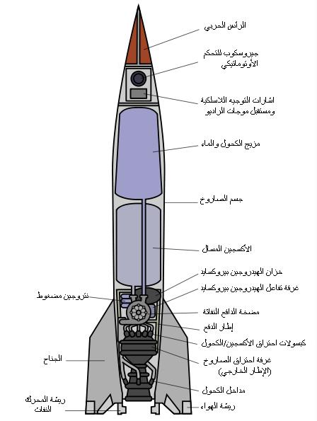 Schematic diagram of a V-2 rocket design. Based on Image:V-2.png, but with most of its engine data from